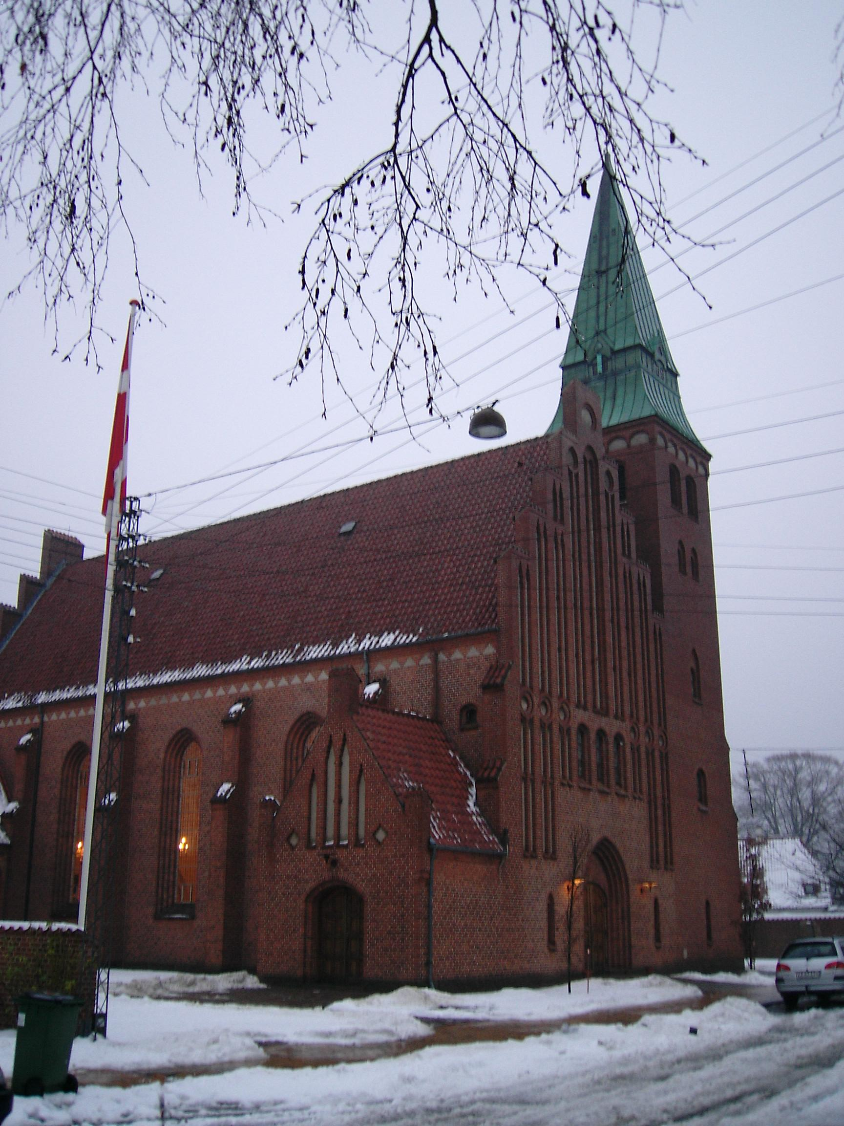 The Church of Thomas Kingo in Odense, Denmark. Picture taken by User:Twid on 1st January 2006.